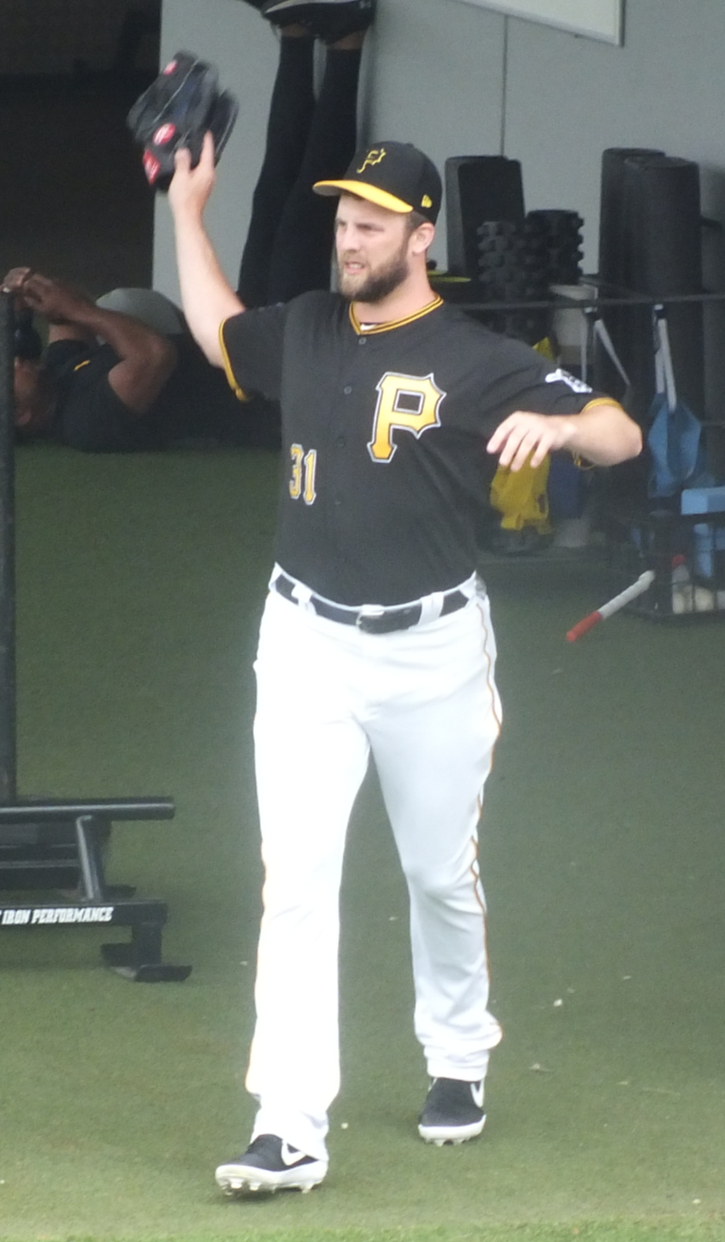 Jordan Lyles with the Pittsburgh Pirates in 2019